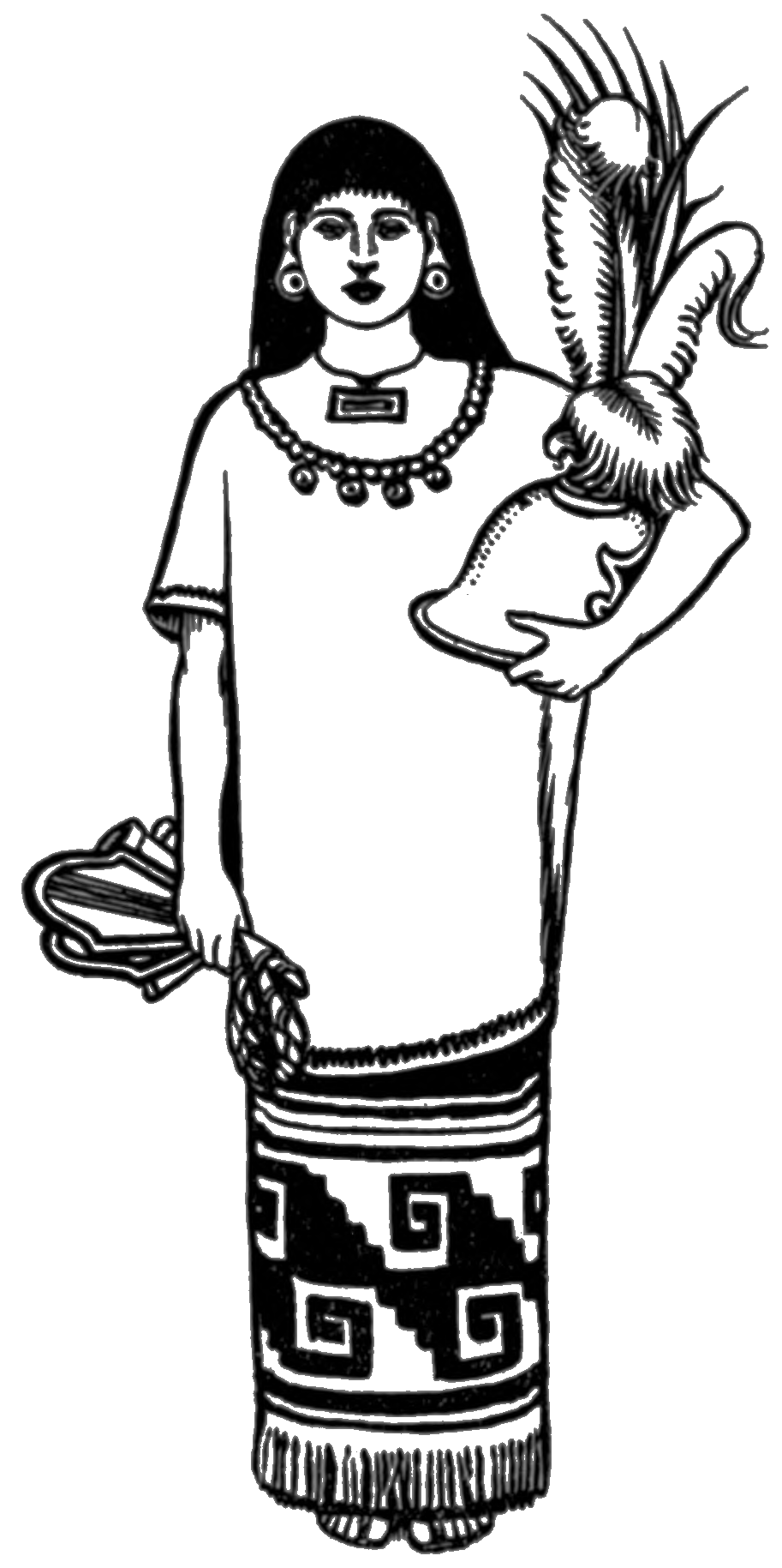 Malinal of Painalla